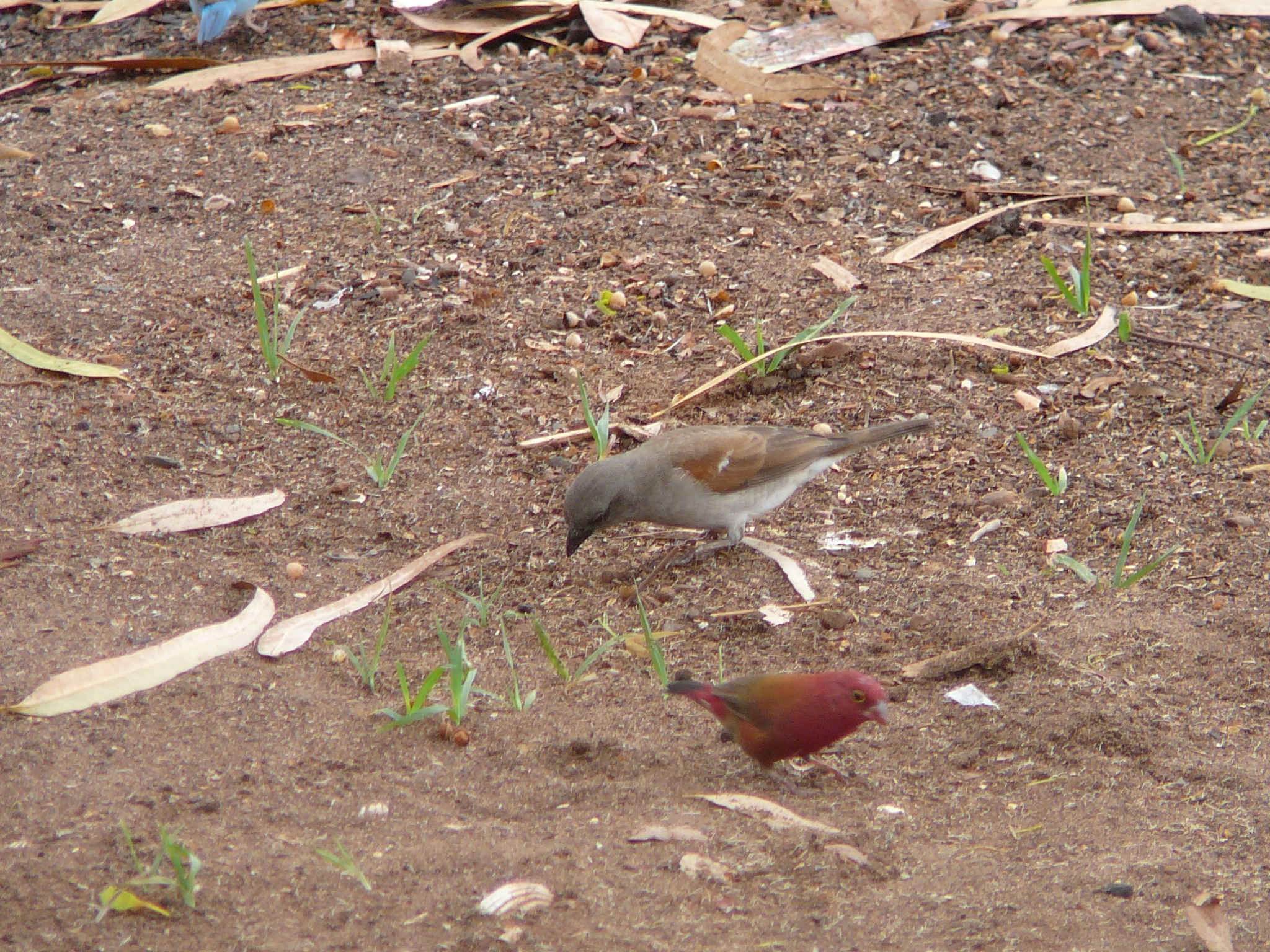 Grey-headed Sparrows (Background)